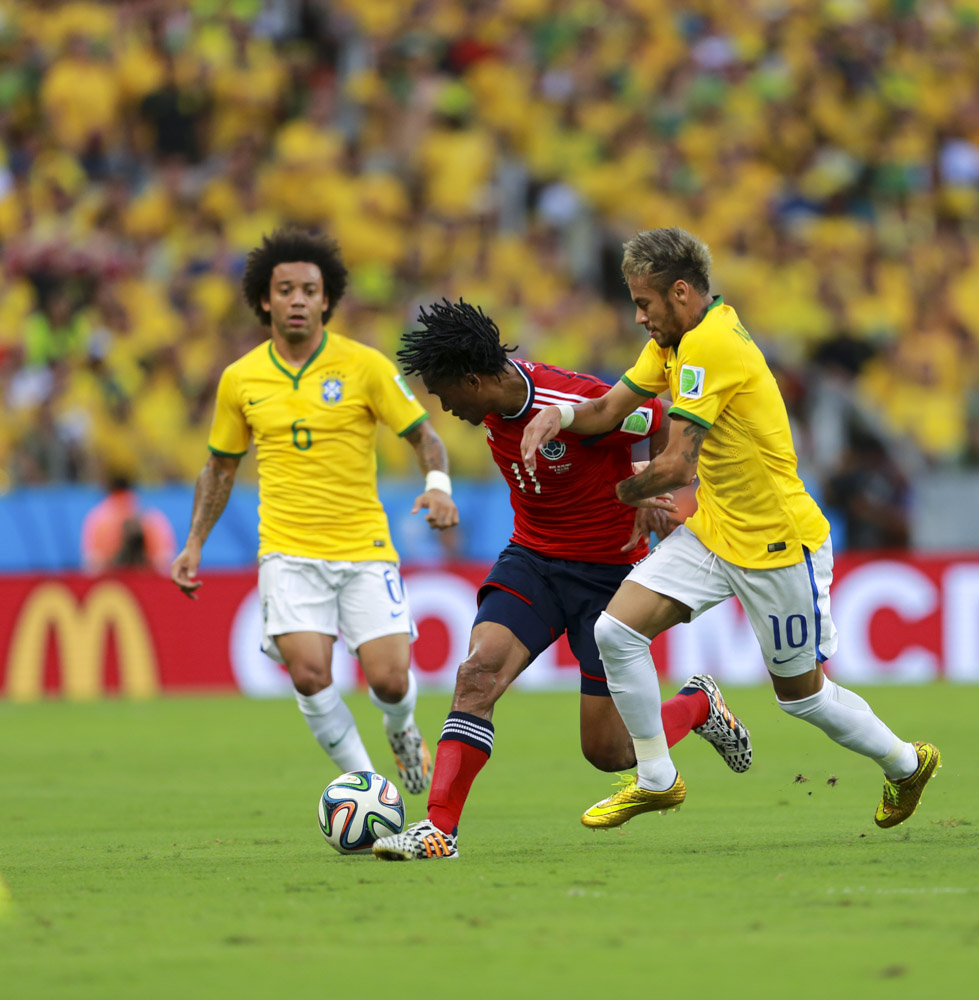 Brazil and Colombia match at the FIFA World Cup 2014-07-04